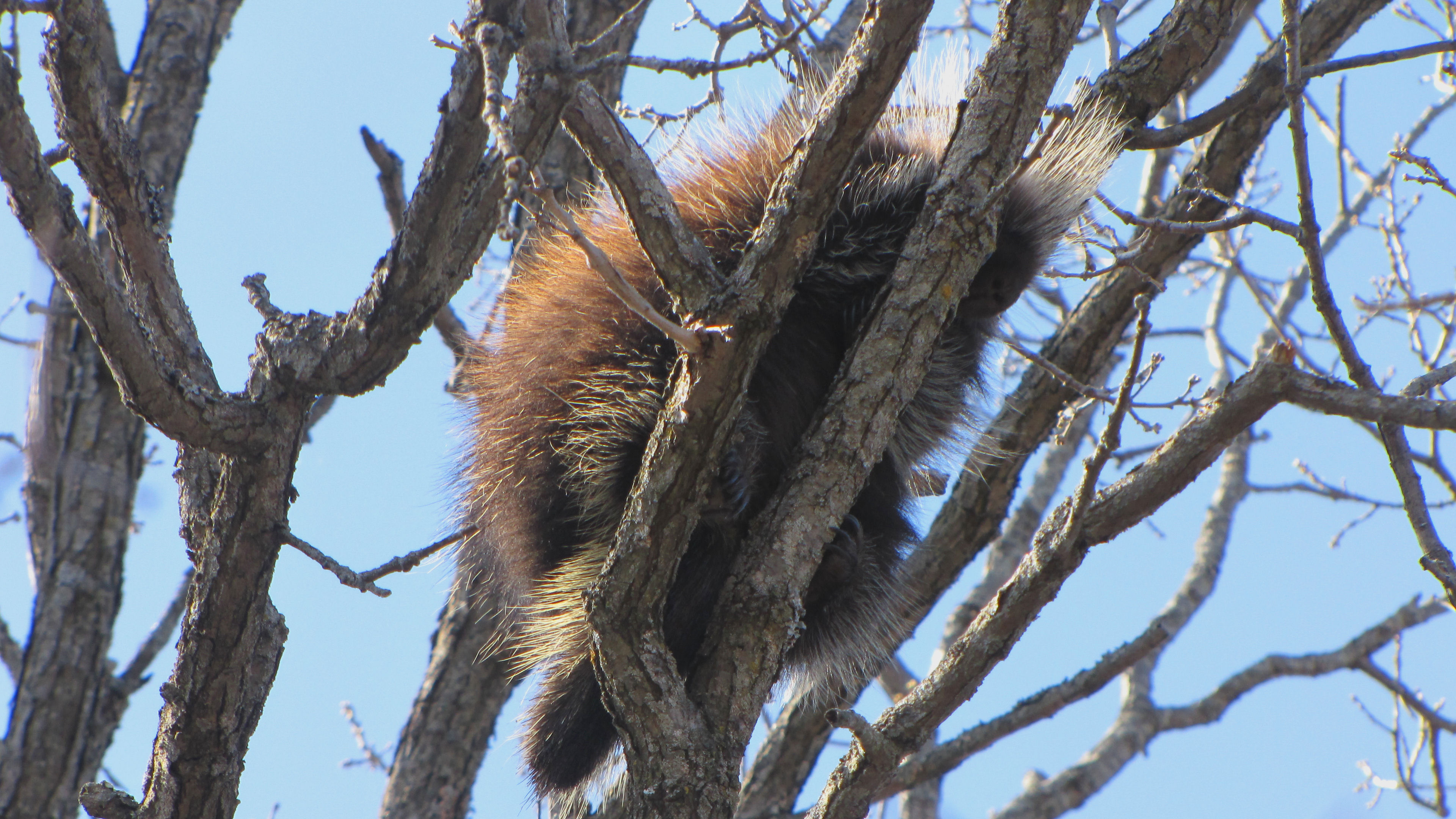 North American Porcupine (Erethizon dorsatum), sleeping in tree, Ottawa, Ontario